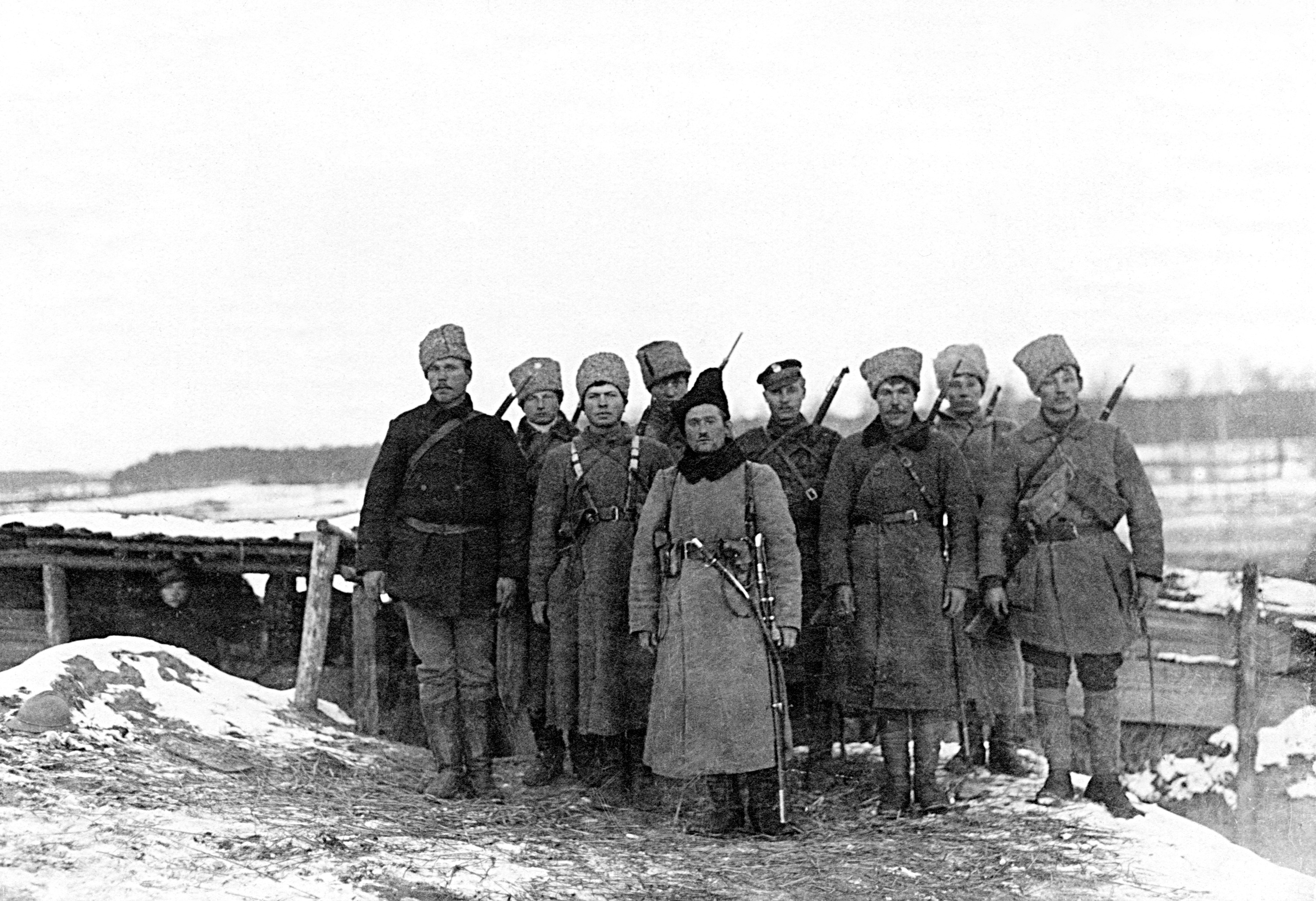 Insurgents under command of ataman Lukash Siamienik (shown in the center). Jurka Monich to the left, Wasil Mukha is behind. Vialikaie Stachava, 1919